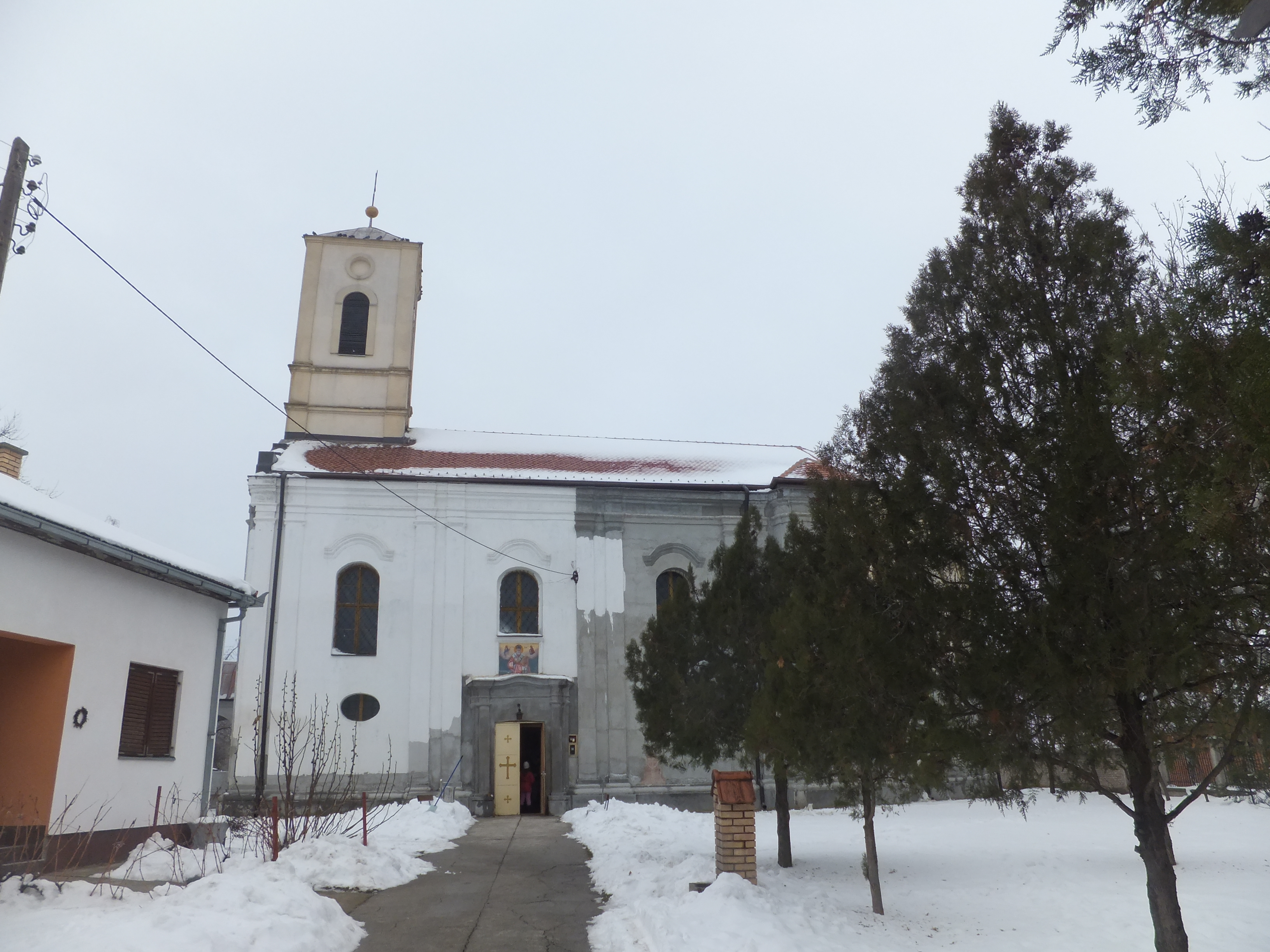 Church of Saint Nicholas in Kraljevci